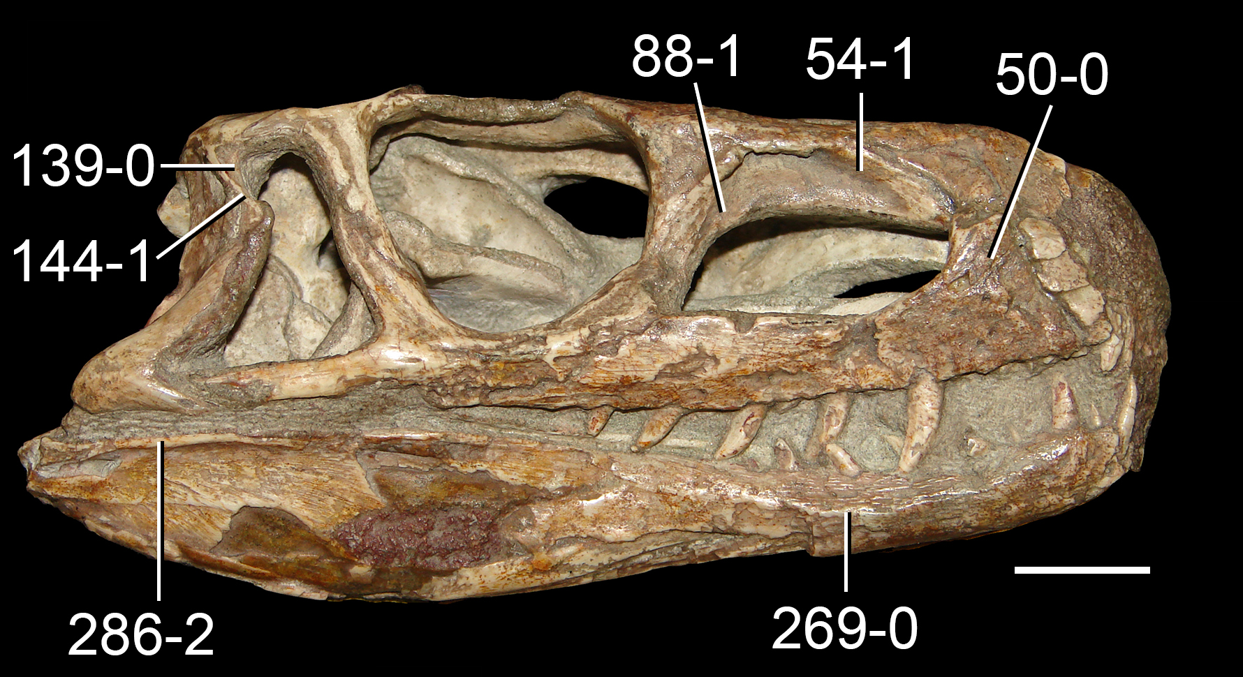 The skull of SAM-PK-5867, a specimen of Euparkeria capensis. Image is in right lateral view. Scale bar equals 1 centimeter. Numbers indicate character-states scored in the data matrix. Character state scores= 50-0: The portion of the maxilla in front of the antorbital fenestra is .12-.22 times the length of the bone. 54-1: An antorbital fossa is present along the ascending process of the maxilla but not the horizontal process. 88-1: An antorbital fossa on the lacrimal which is present but strongly restricted anteriorly. 139-0: A sharp transition between the anterior and ventral processes of the squamosal, creating a square outline of the posterodorsal border of the infratemporal fenestra. 144-1: An anteroposteriorly narrow and strap-like ventral process of the squamosal. 269-0: No longitudinal groove on the dentary. 286-2: A laterally projecting shelf on the surangular with a straight or gently convex lateral edge.